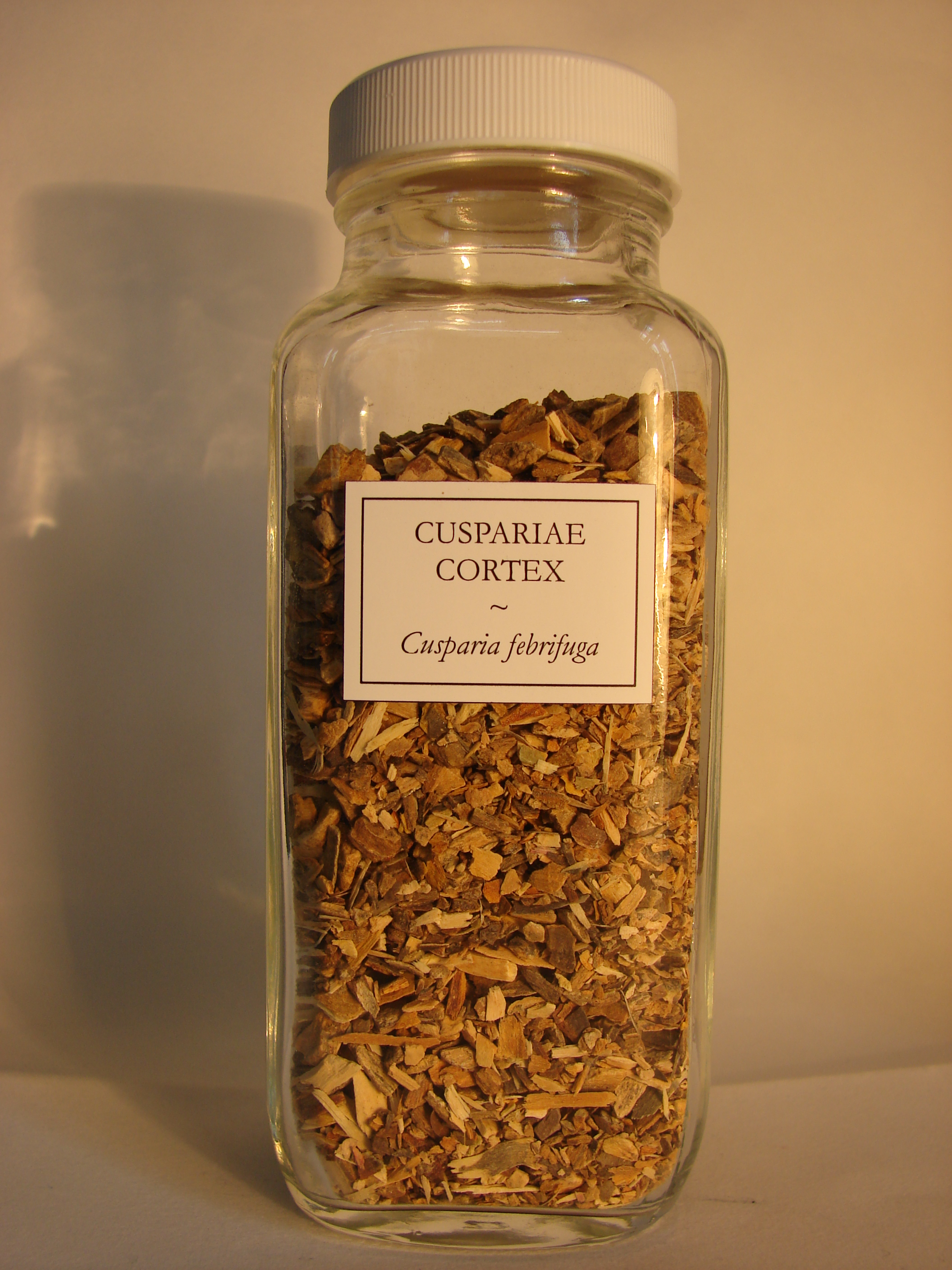 Cuspariae cortex, Cusparia febrifuga